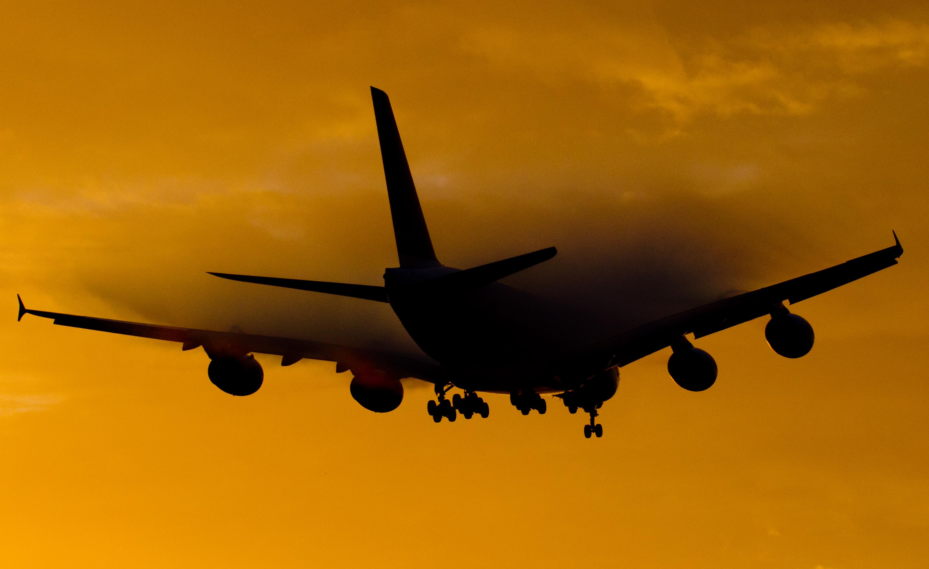 An early morning arrival into London Heathrow